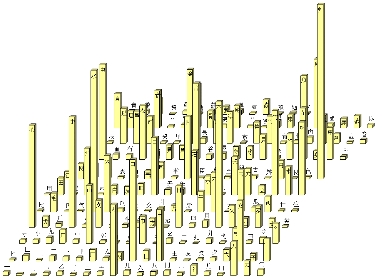 frequency table of Chinese radicals in the Kangxi Dictionary